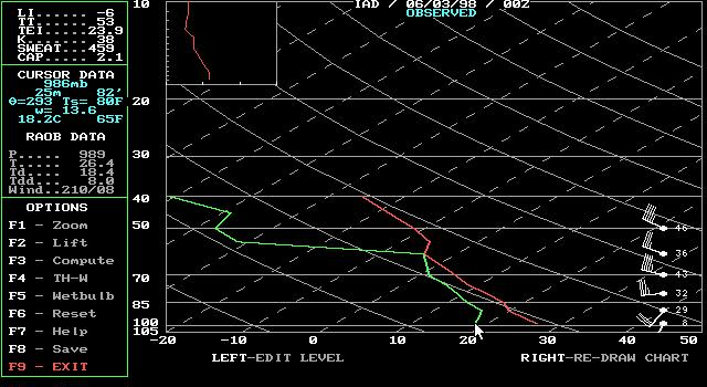 Skew-T plot of an atmospheric profile at 00z on June 3, 1998, around the time of the Frostburg Tornado. Taken at IAD (Dulles Airport) by the NWS, Sterling VA